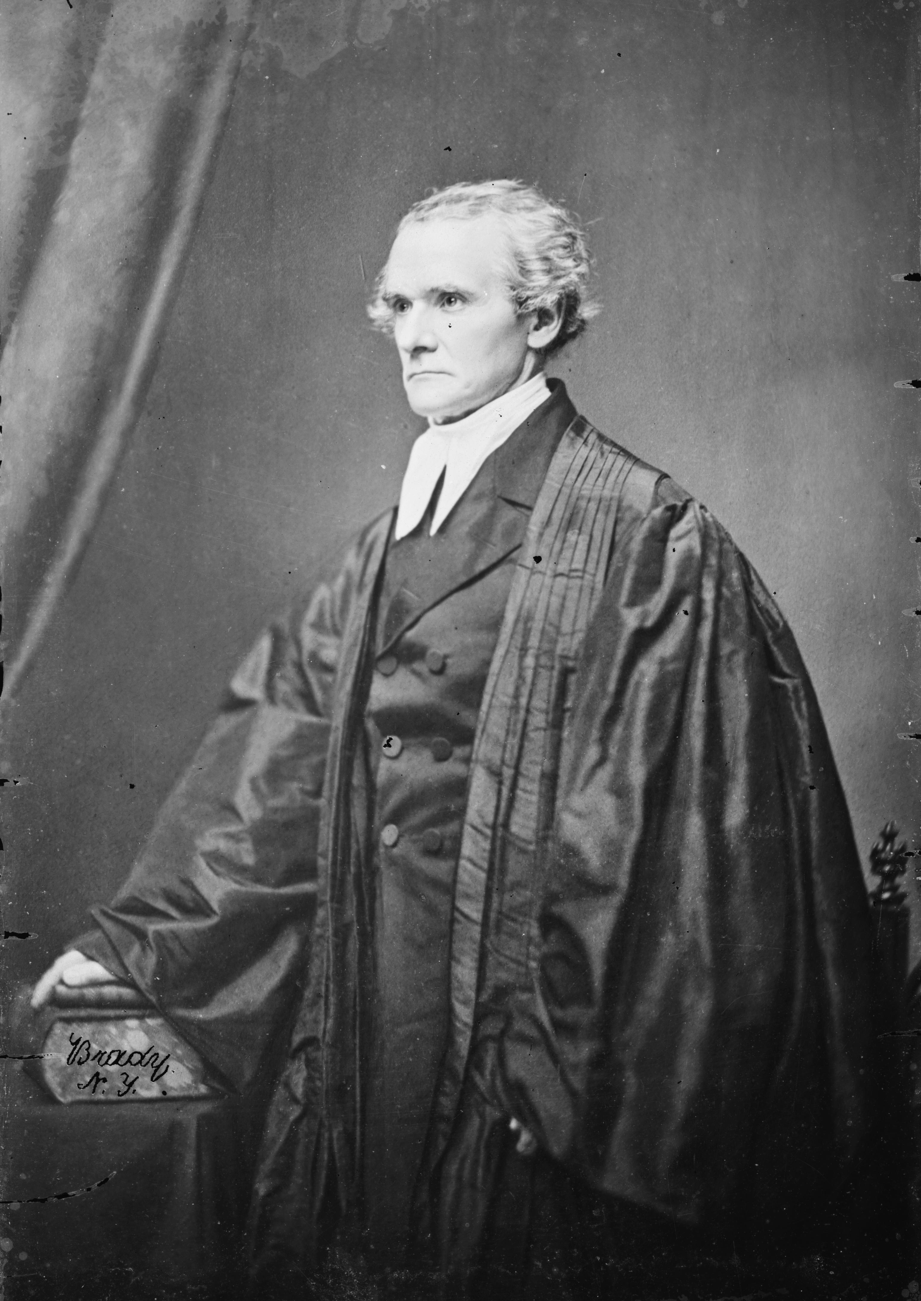 Charles Anthon. Library of Congress description: "Dr. Charles Anthon"